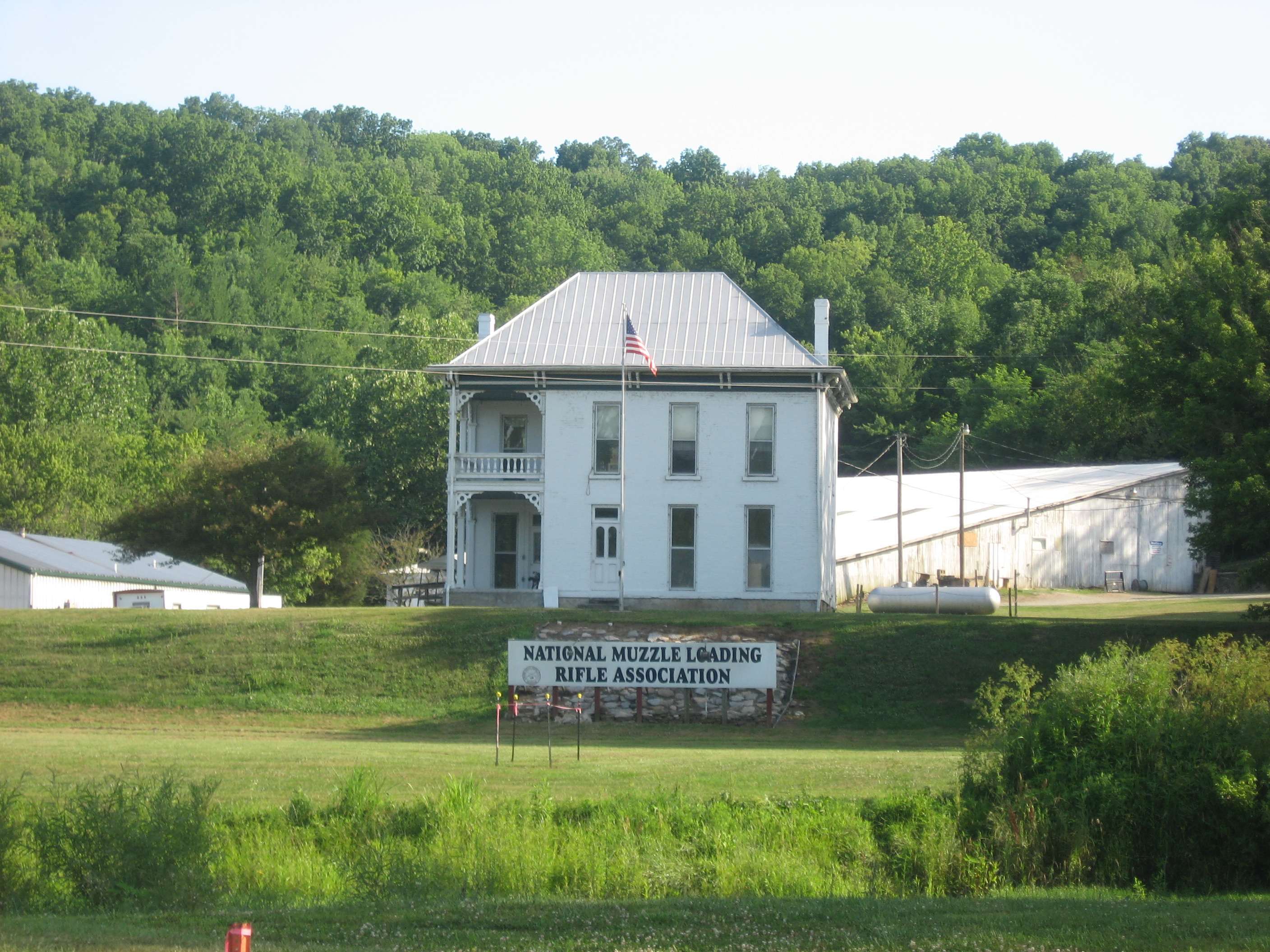 Distant view of the John Linsey Rand House, located on Maxine Moss Drive above Laughery Creek at Friendship in Brown Township, Ripley County, Indiana, United States. Built in 1878 and since converted into headquarters for the National Muzzle Loading Rifle Association, it is listed on the National Register of Historic Places.